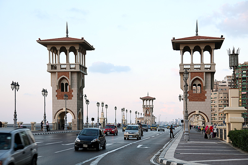 Stanley bridge, Alexandria, Egypt